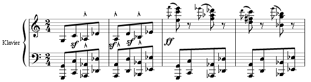 Excerpt from Modest Mussorgskis Pictures at an exhibition (The Hut of Baba Yaga) See: File:Baba Yaga Quarten for wikipedia.mid